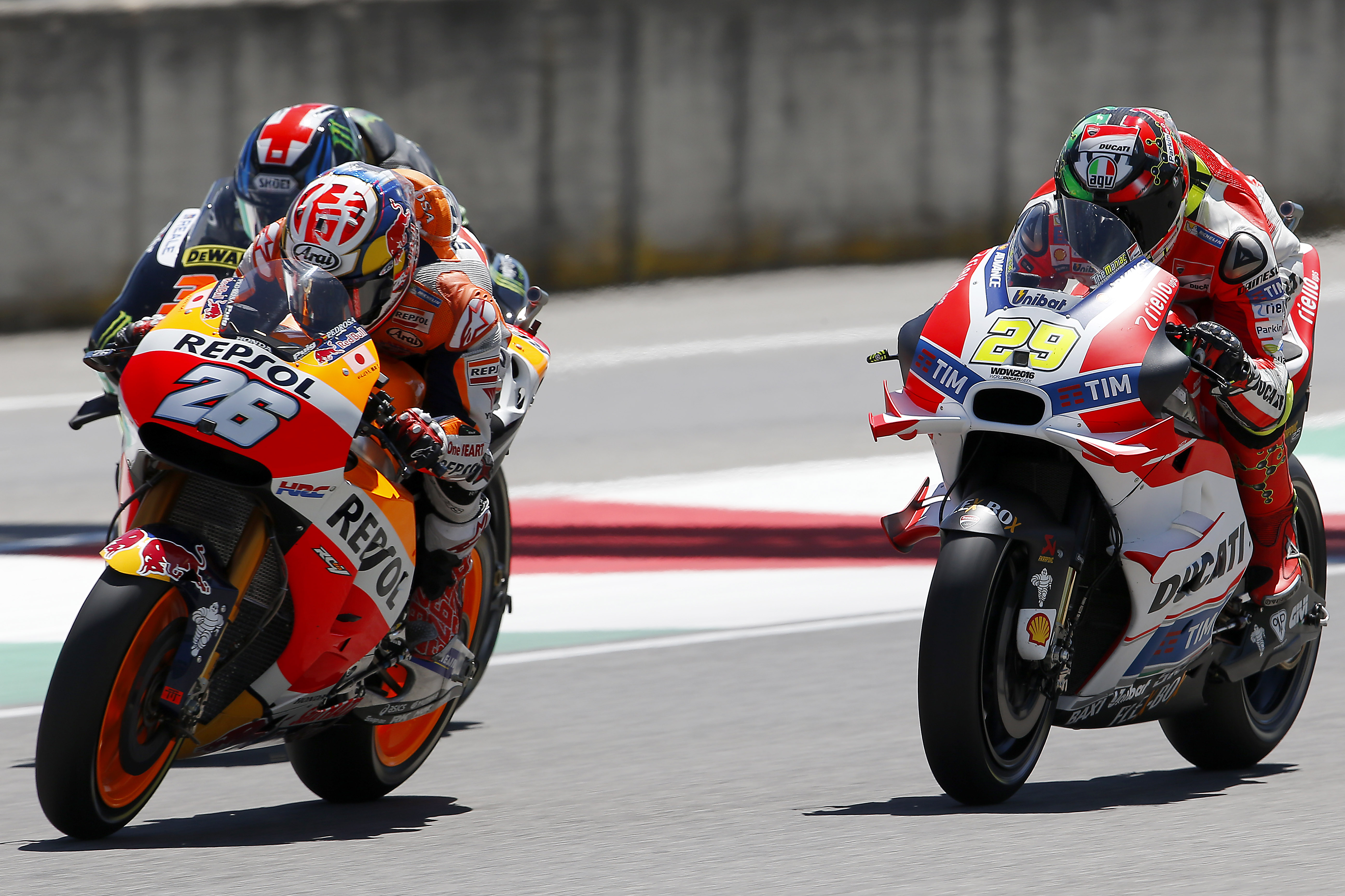 Dani Pedrosa, riding his Repsol Honda, being chased by the Factory Ducati of Andrea Iannone and the Monster Yamaha Tech 3 of Bradley Smith at the 2016 Italian Grand Prix.